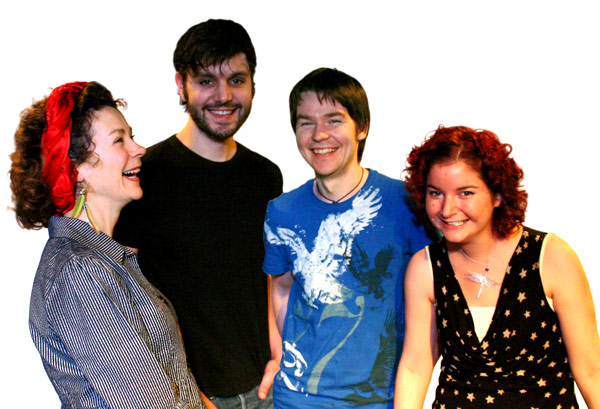 Uiscedwr's short-lived fourpiece line-up.